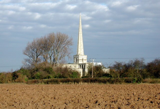 View across a ploughed field at Hemingbrough to St Mary the Virgin parish church